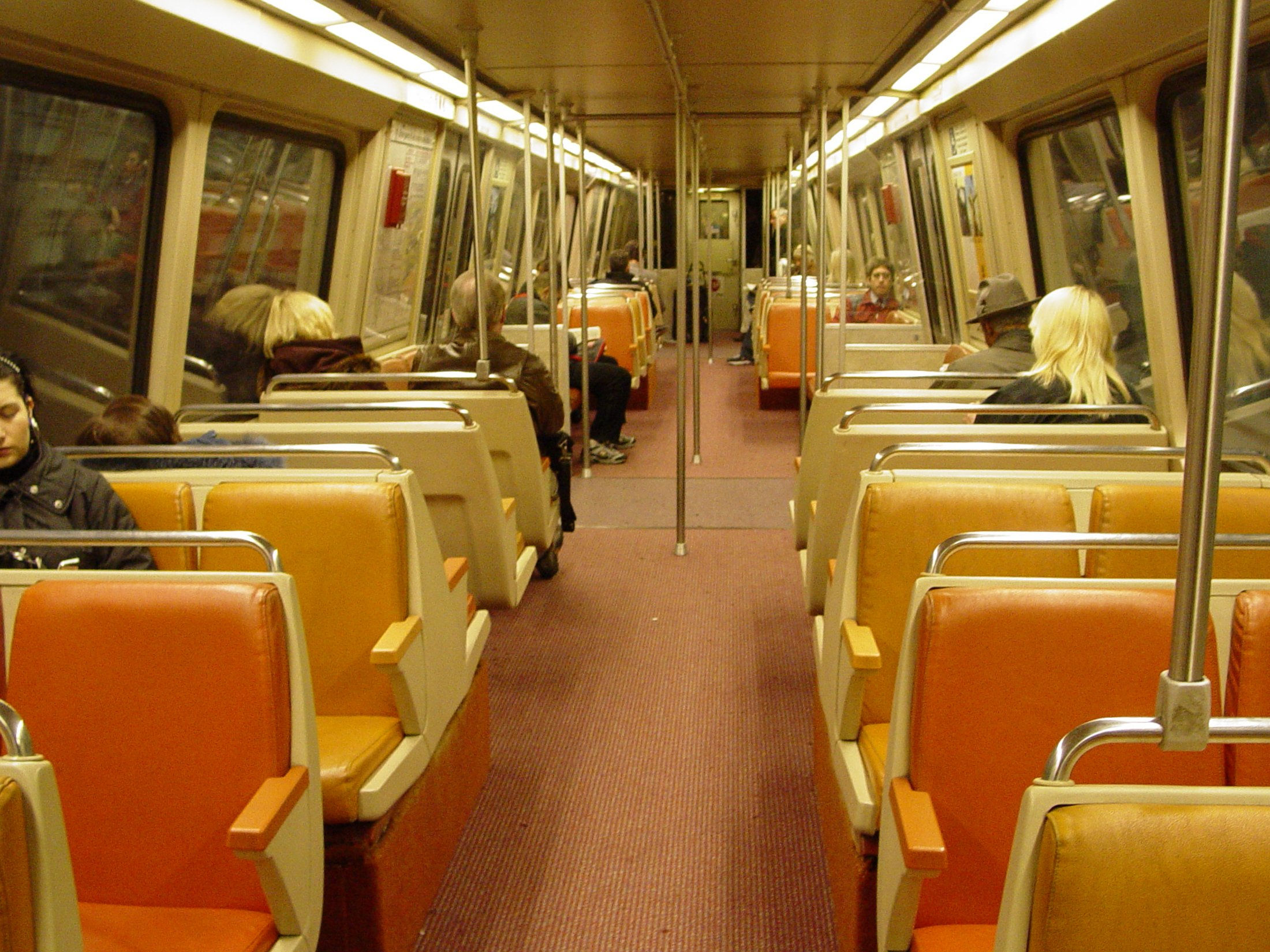 Interior of Rohr 1112 on the Washington Metro. Note the CAF-style carpeting in this car.